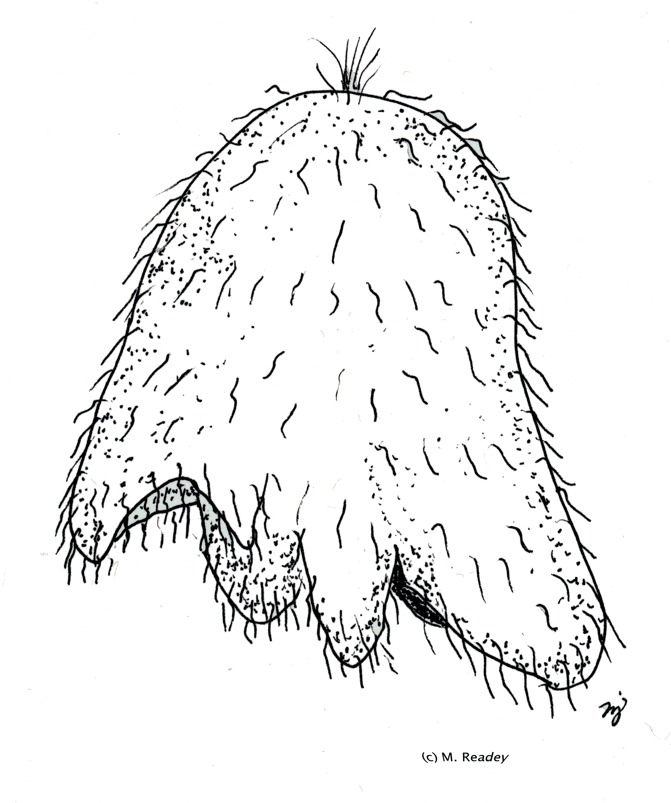 A generalized Müller's larva of a free=living turbellarian of the phylum platyhelminthes. It bears many similarites to the trochophore larva, and helps to anchor the platyhelminthes as an outgroup to the lophotrochozoa.